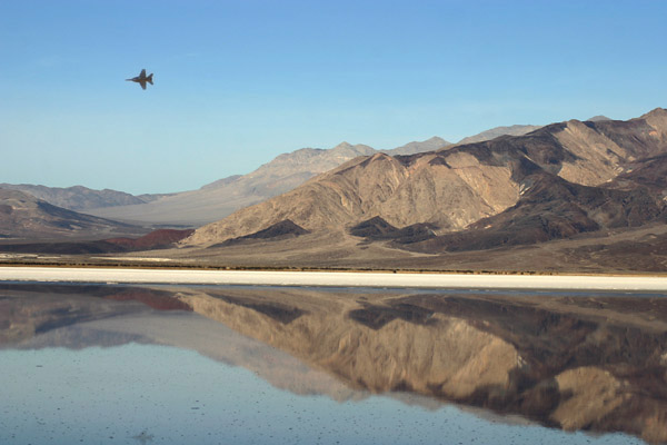 A jet flies over the hot springs in the Saline Valley, in the northern Mojave Desert, Death Valley National Park, Inyo County, California.